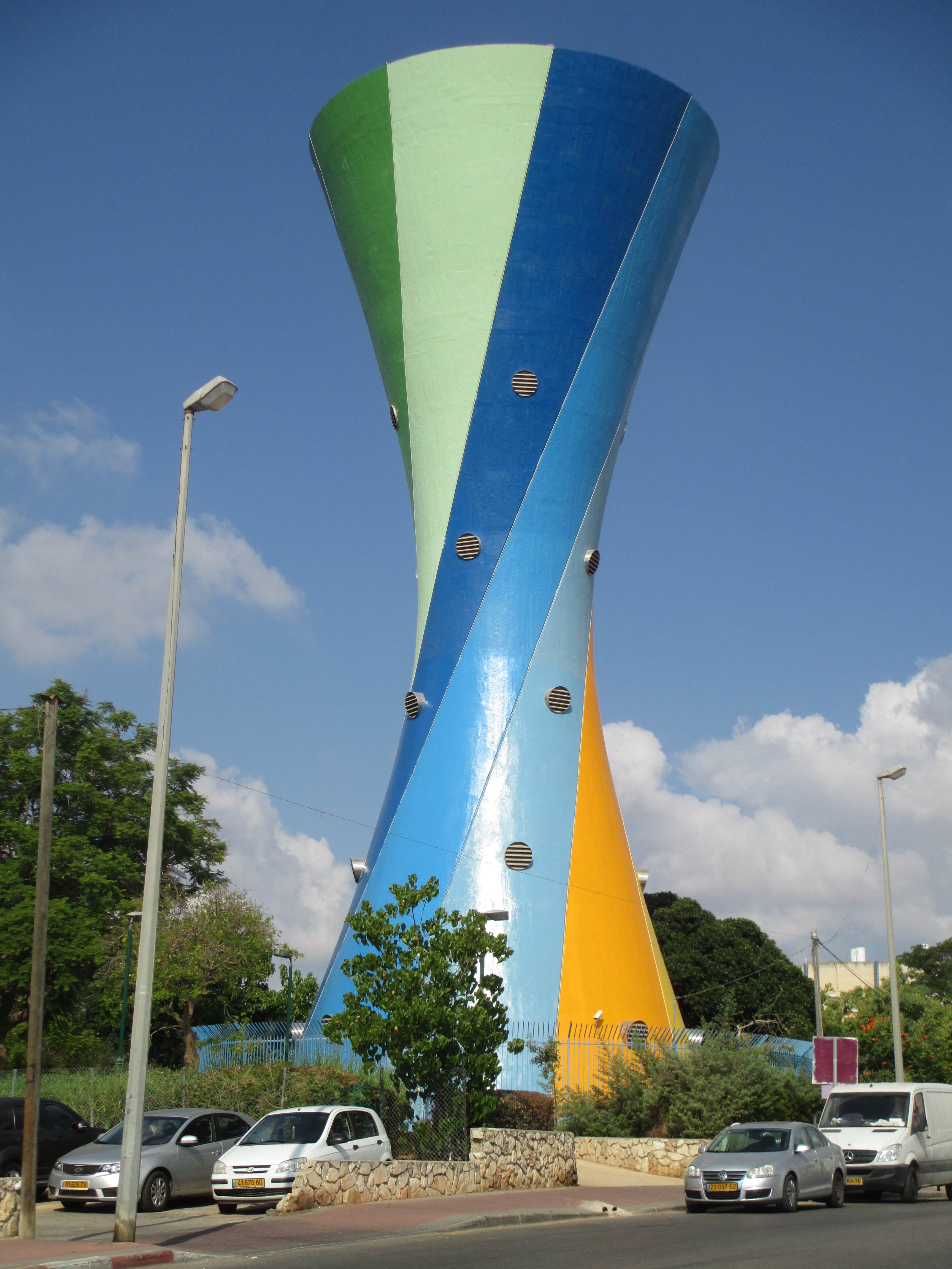 מגדל המים בשכונת רביבים בראשון לציון